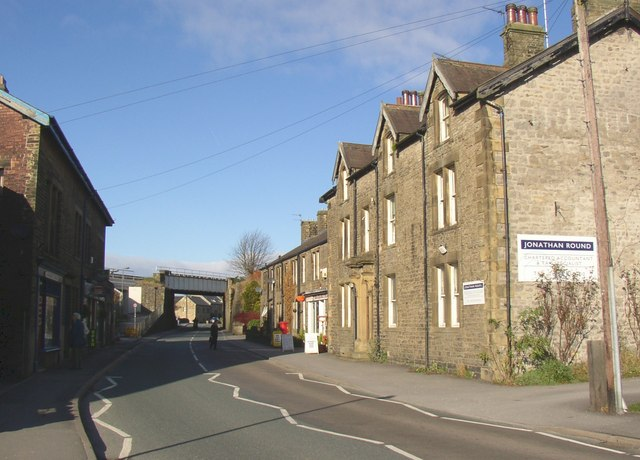 A quiet spell on the main A 65 road through Hellifield, N. Yorks.